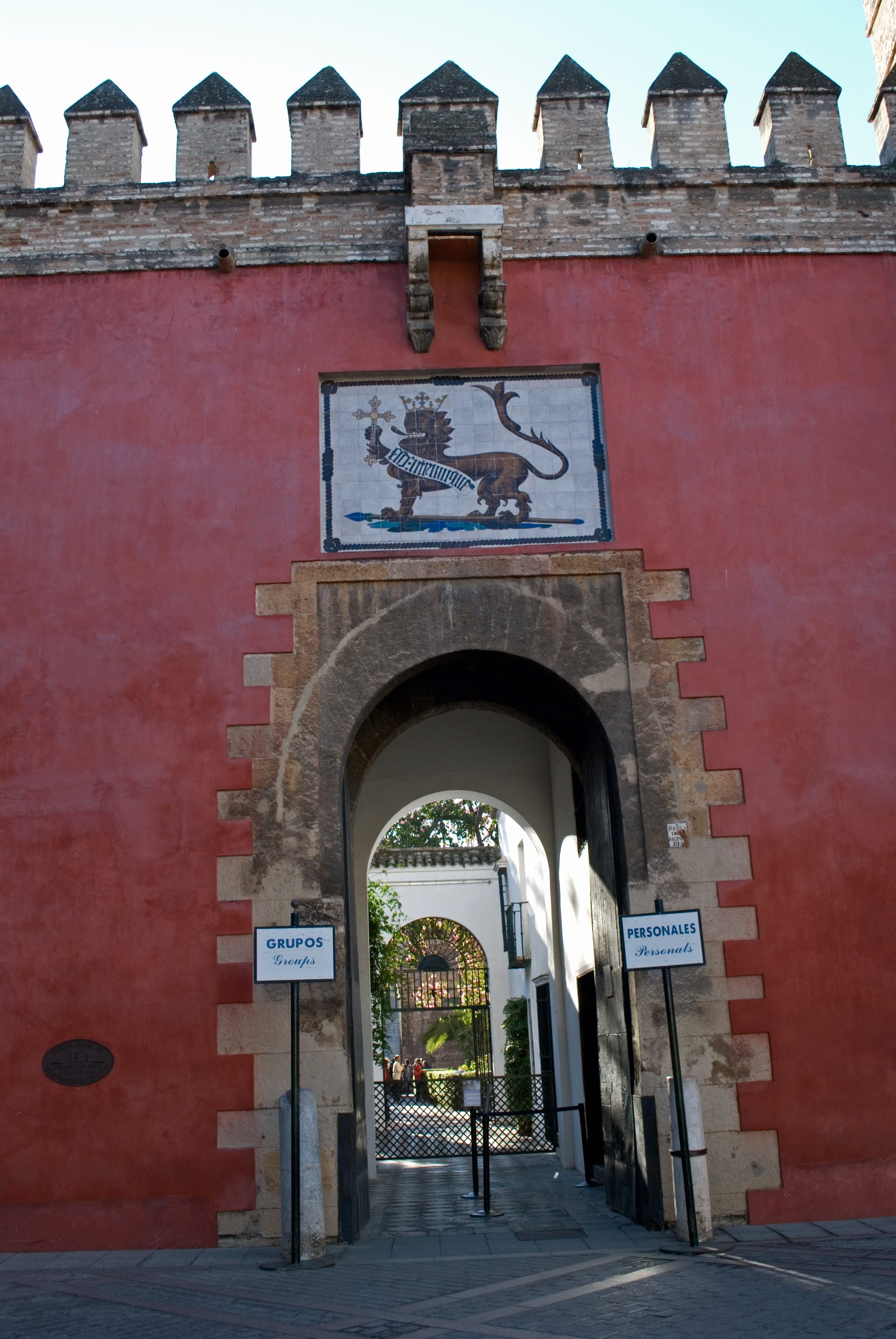 Alcázar of Seville